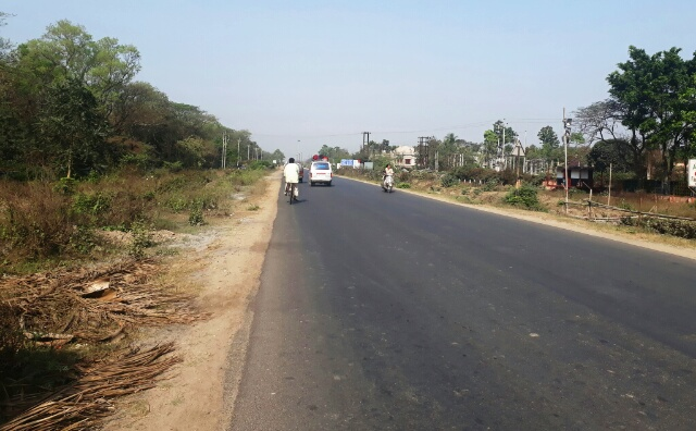 Kalyani Express Highway, Near JIS college.